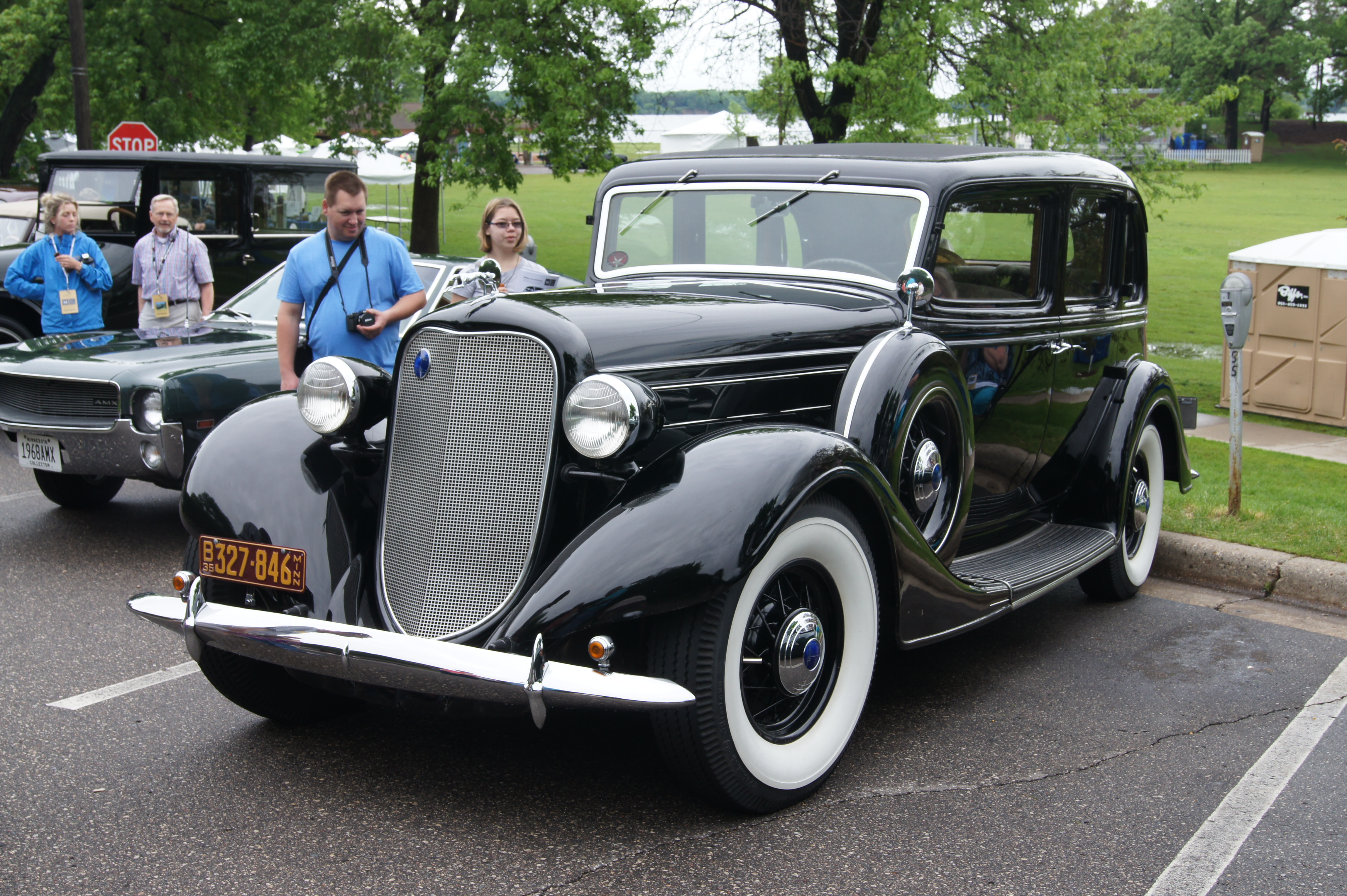 1935 Lincoln Model K 2nd Annual 10,000 Lakes Concours d'Elegance to Benefit Courage Center Foundation